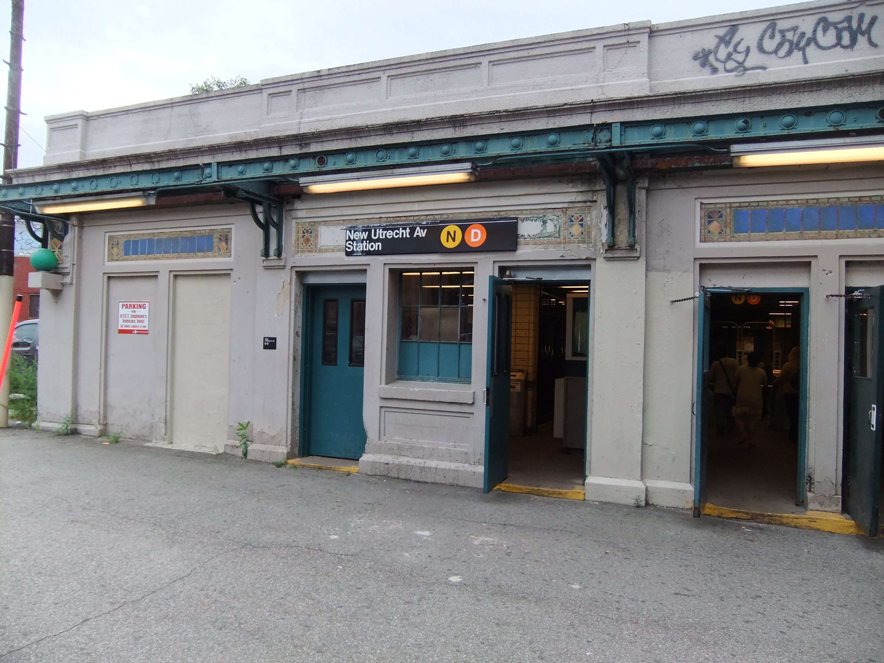 Entrance to the 62nd Street-New Utrecht Avenue subway station in Brooklyn, NY.